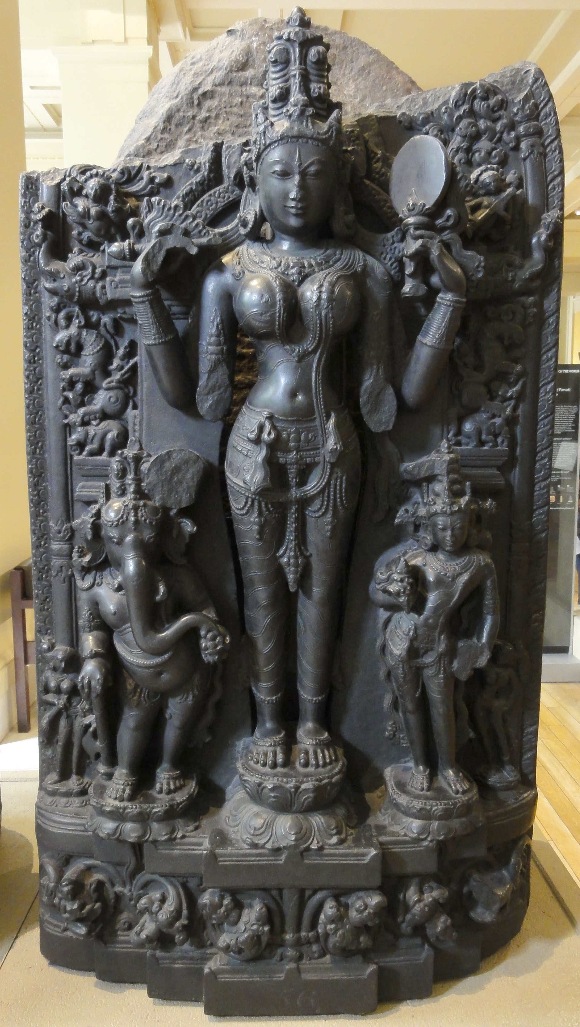 Statue of Lalita in the British Museum